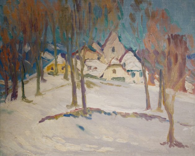 Houses in the Snow